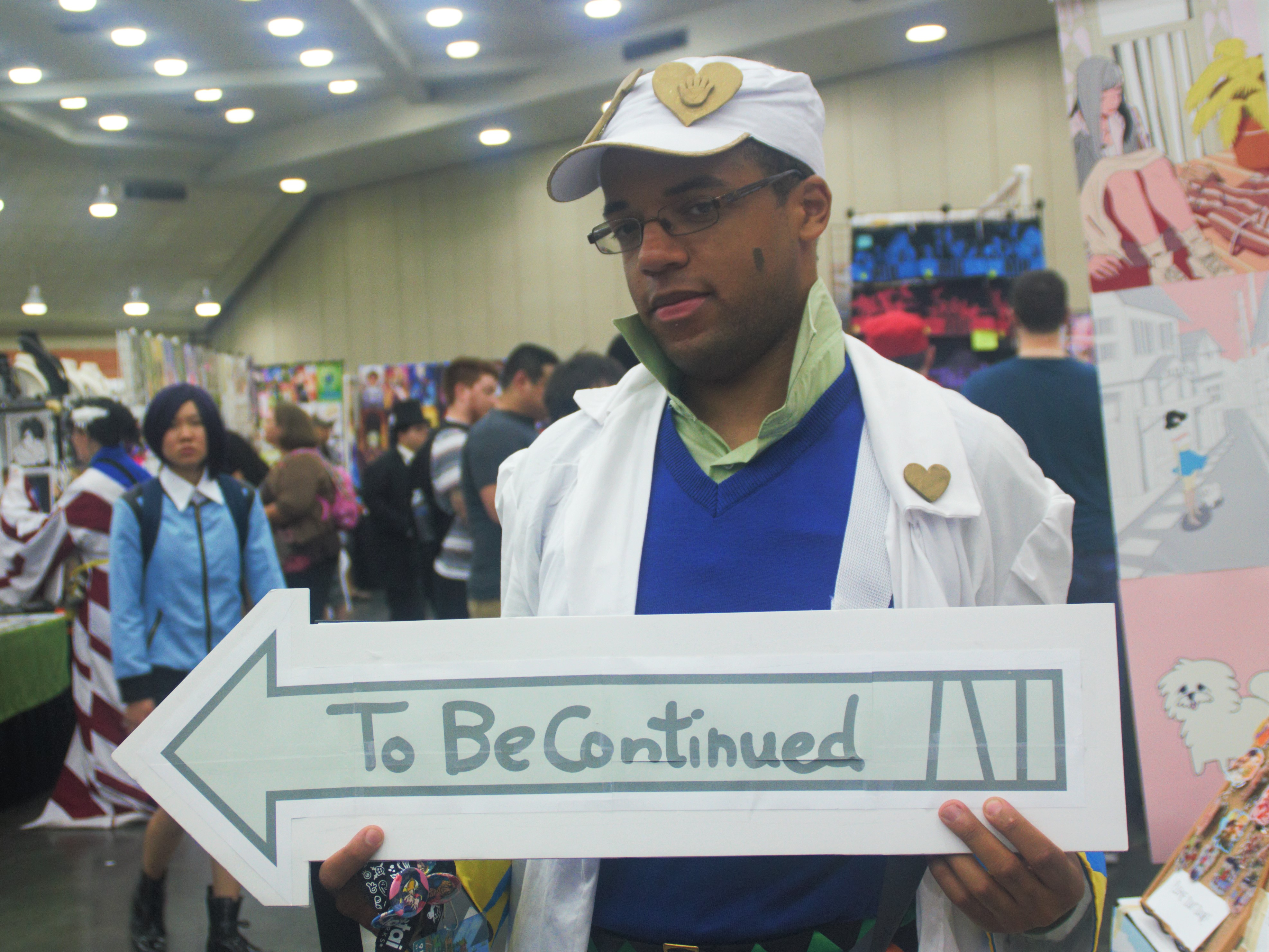 Cosplay from Otakon 2016